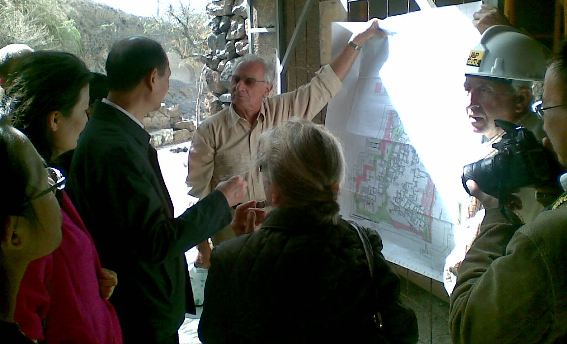 Christos Doumas, professor of prehistoric archaeology at the University of Athens and director of excavations at Akrotiri, Santorini shows the site to the Chinese ambassador to Greece, Luo Linquan on 09.10.2010.